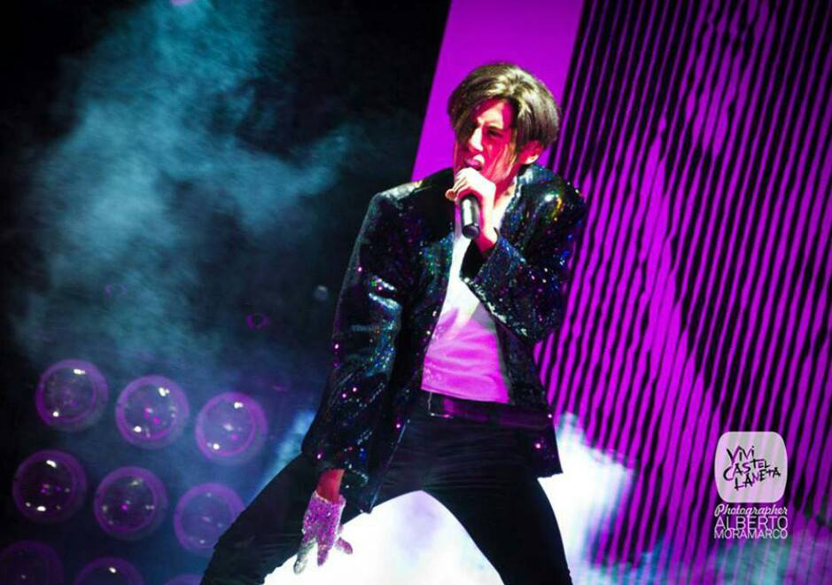 Michele Perniola